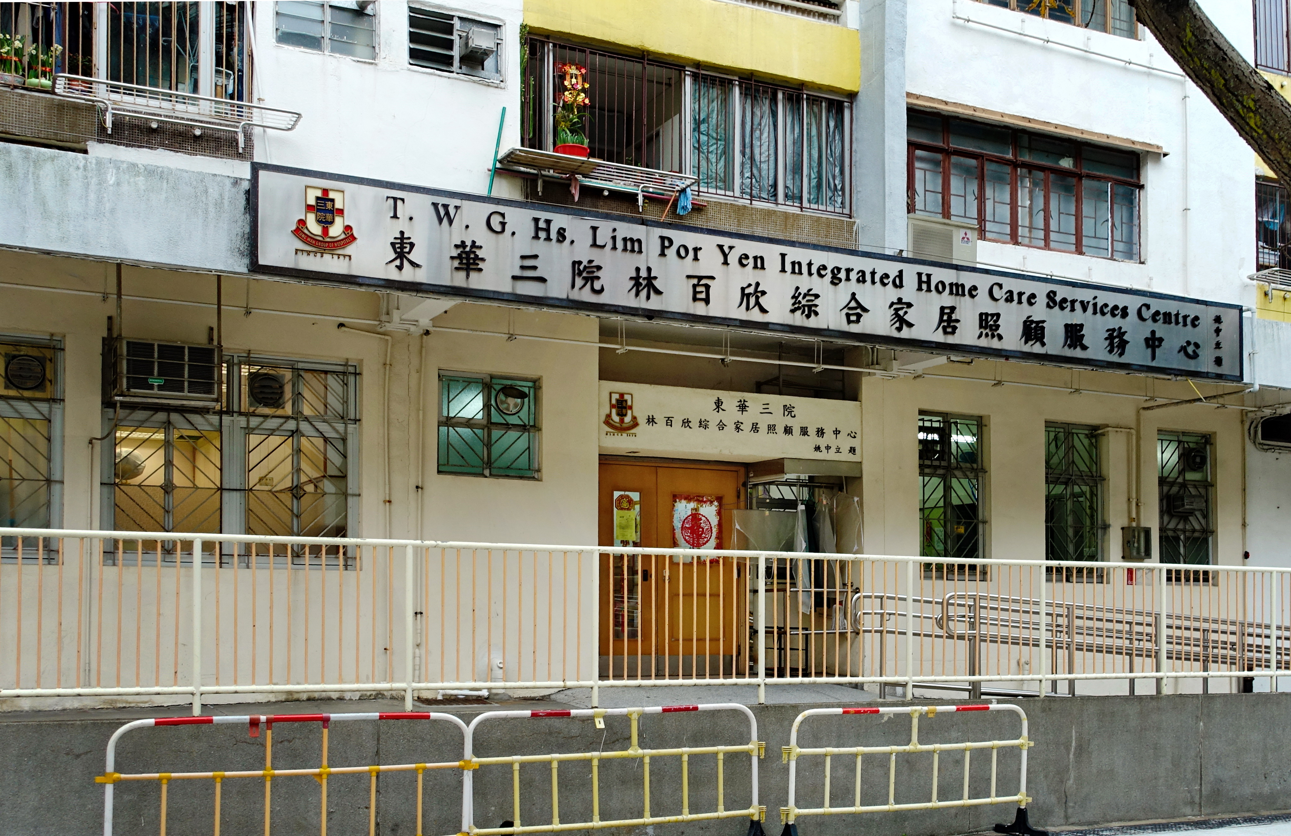 T. W. G. Hs. Lim Por Yen Integrated Home Care Services Centre, No. 133-136, G/F., Block C, Herring Gull House, Sha Kok Estate, Shatin, New Territories, Hong Kong.